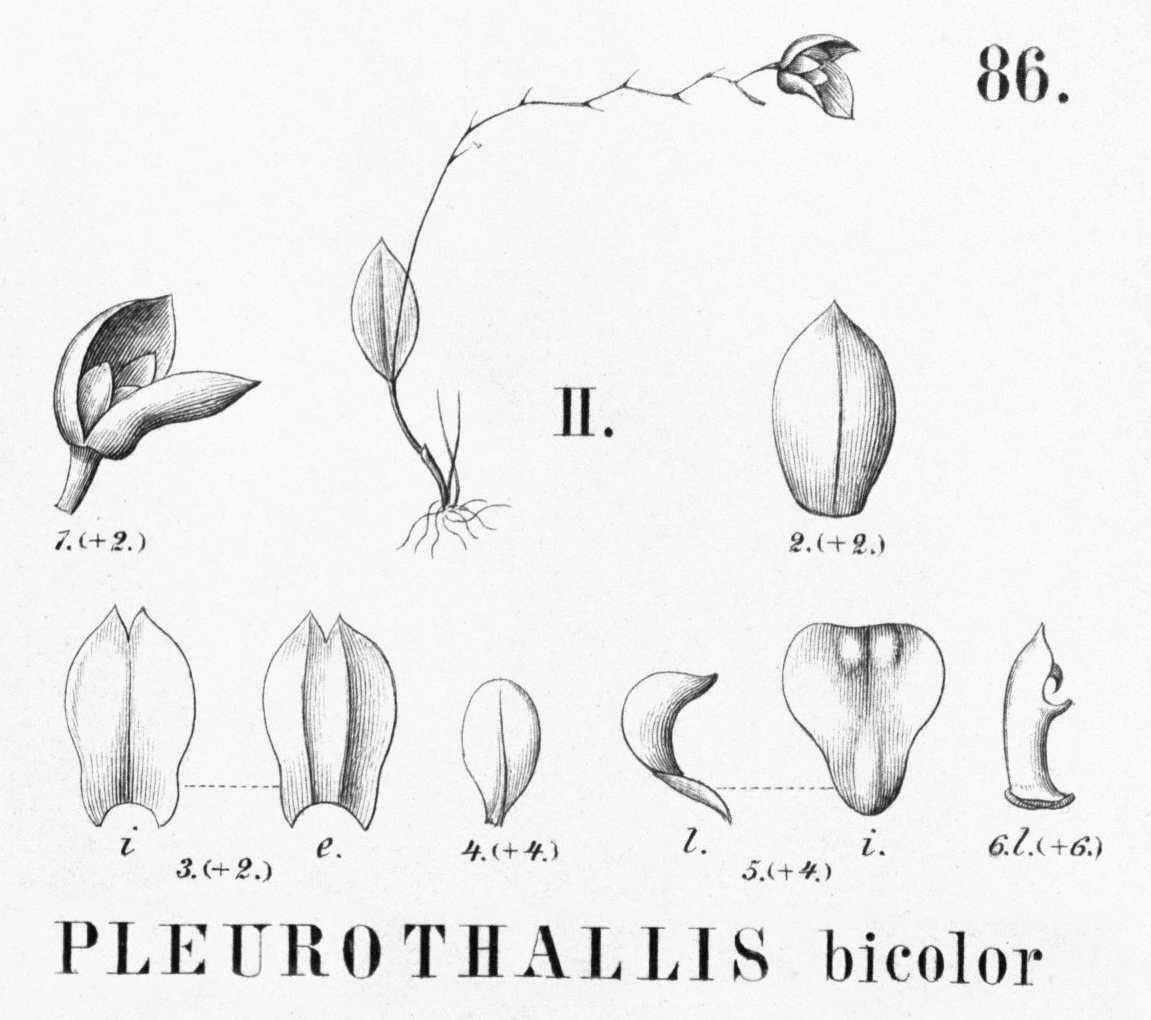 Illustration of Pleurothallis quadridentata (as syn. Pleurothallis bicolor)